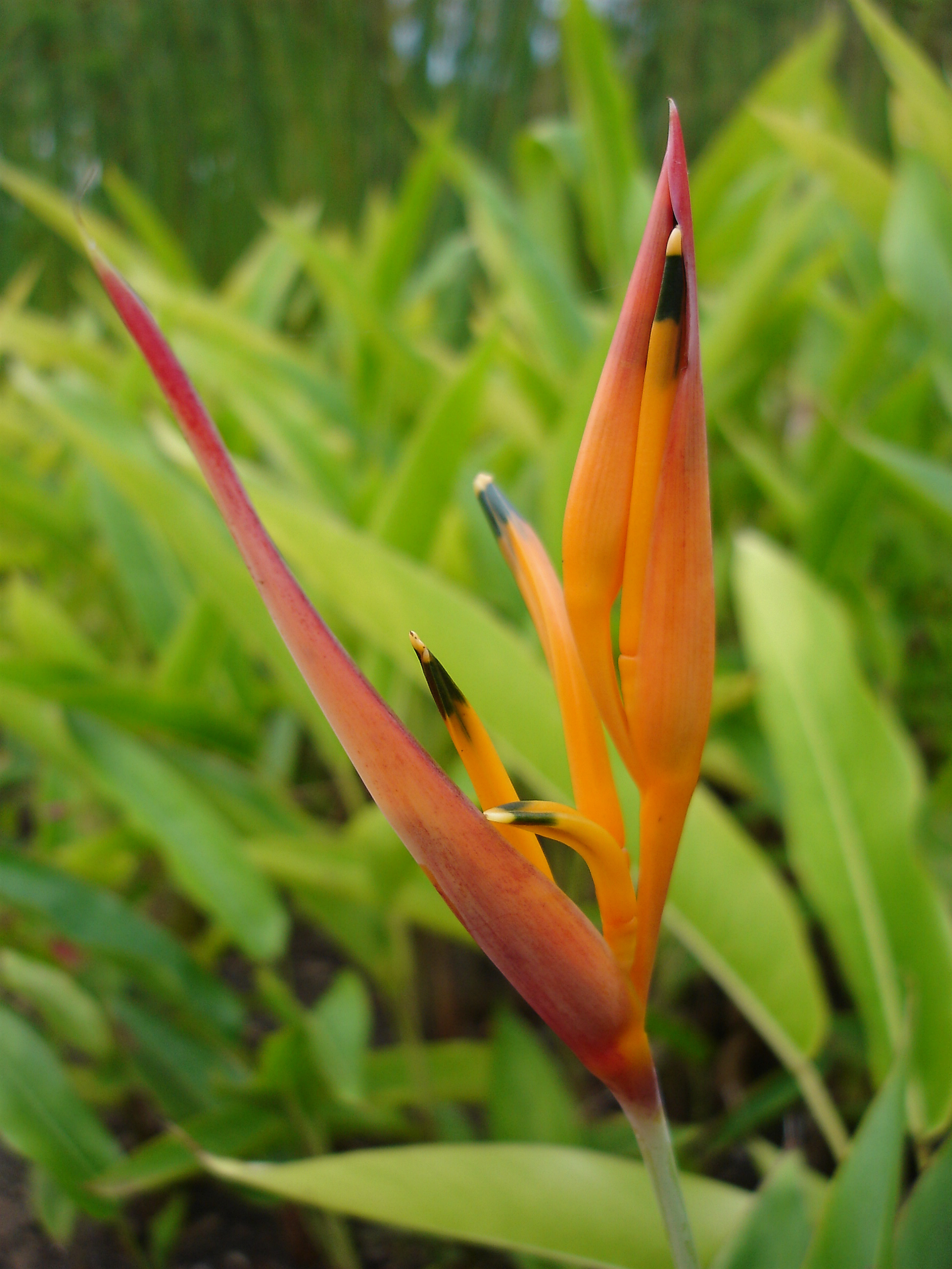 Description: Heliconia psittacorum, november 2004, La Réunion Source:Bouba